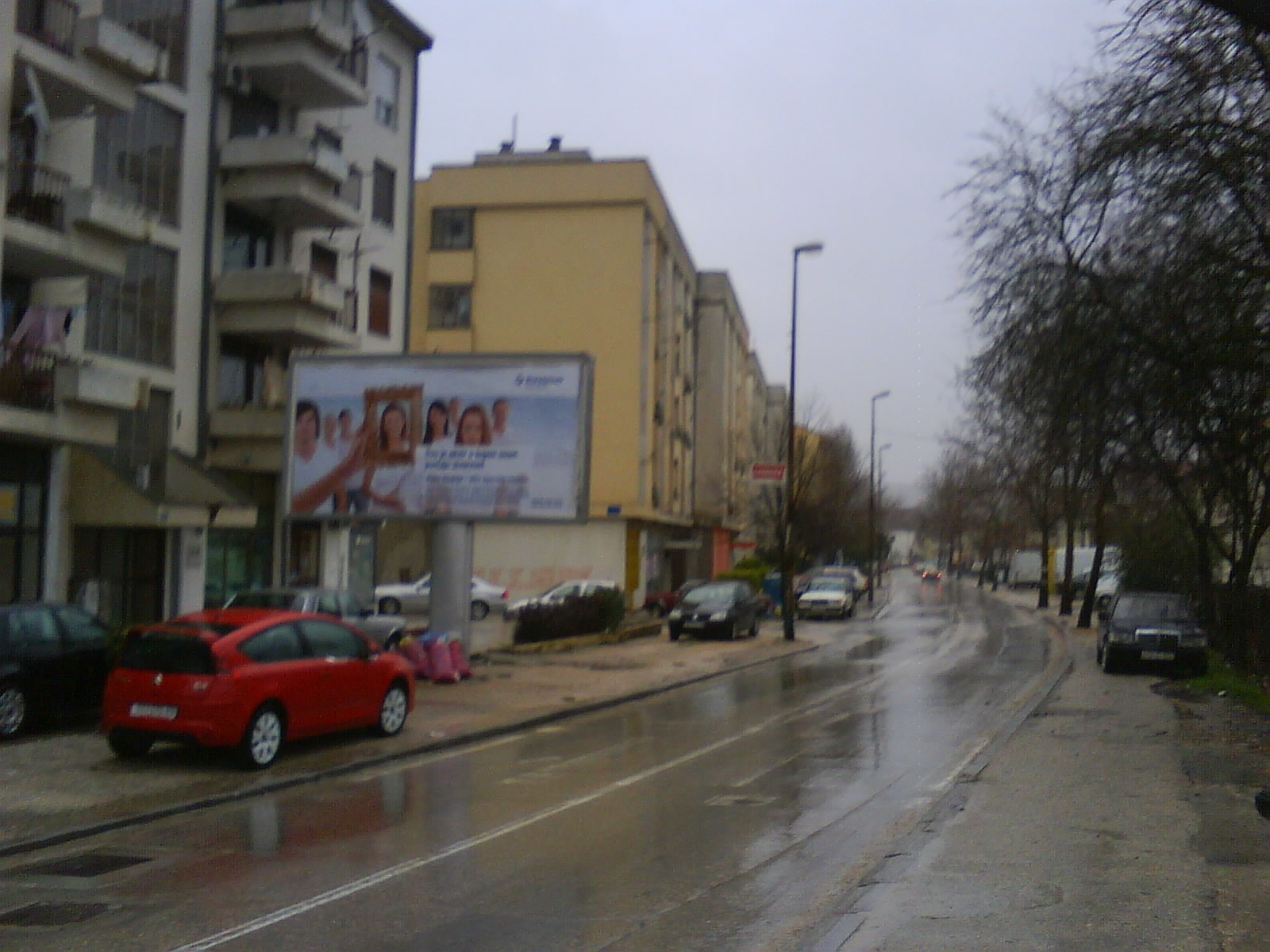 City of Grude